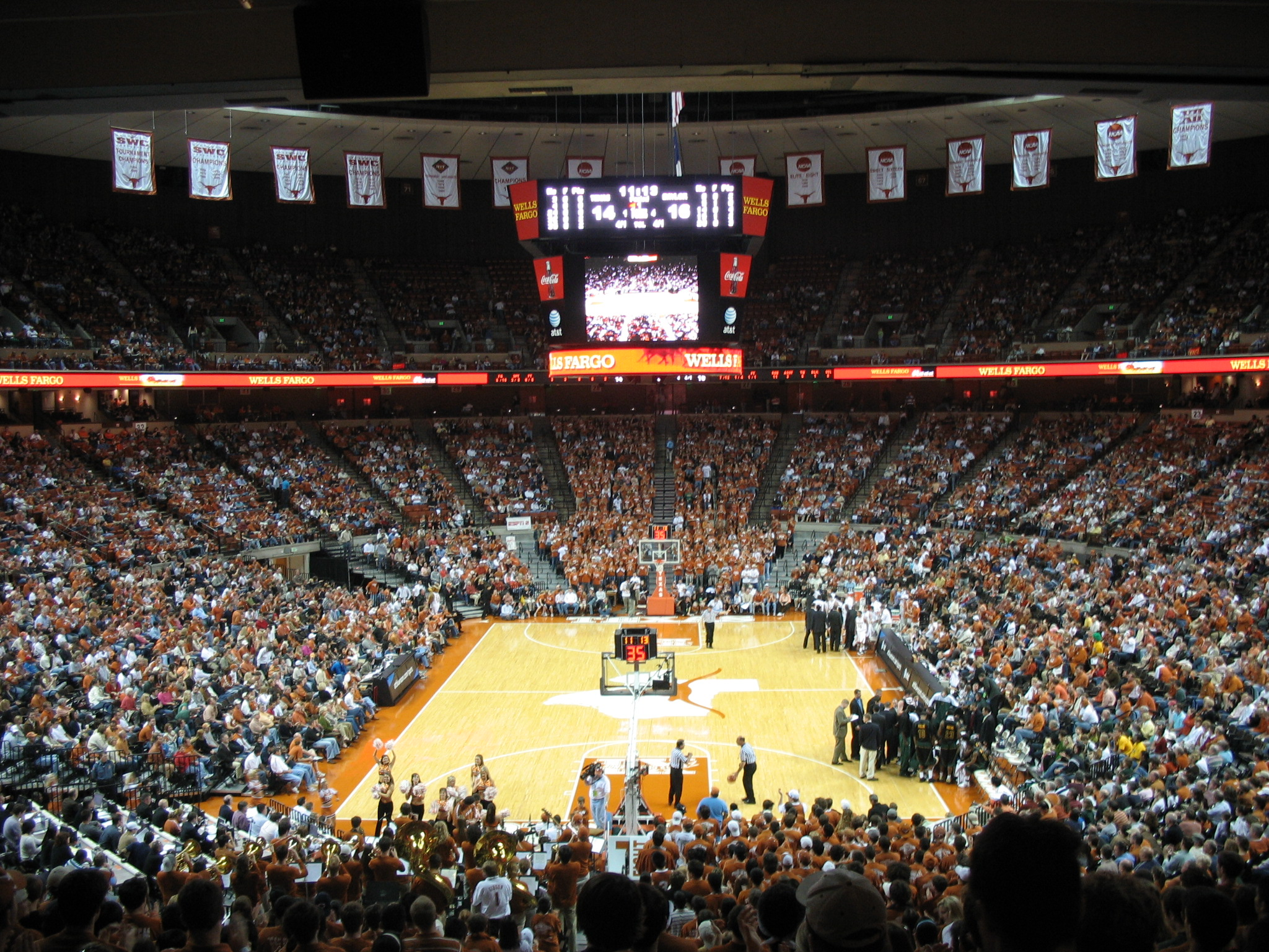 Texas Basketball game at the Frank Erwin Center against the Baylor Bears